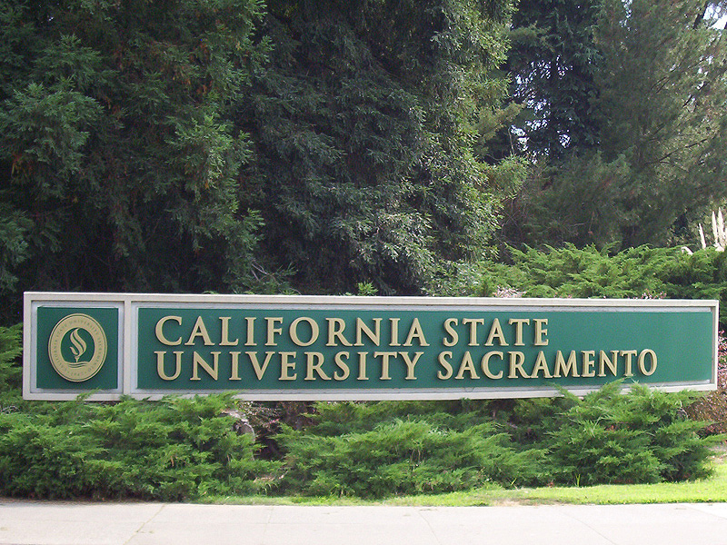 Sign at the north entrance of California State University, Sacramento.